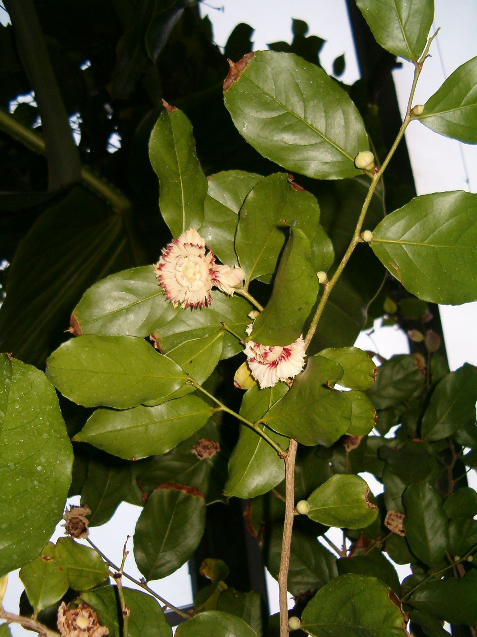 Location: Botanical Gardens Berlin Dahlem